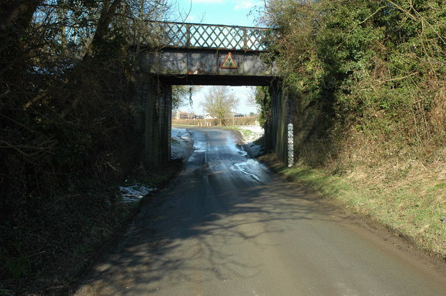 Former railway bridge, Willersey This bridge over the road from Willersey to Badsey is still intact however the line from Cheltenham to Stratford on Avon closed in 1976. To the south at Toddington the line has been reopened by the Gloucestershire and Warwickshire Railway (GWR) as a steam line.